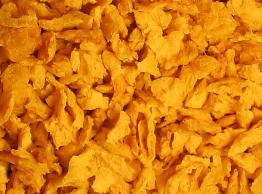 Image of dry TVP flakes, from the English Wikipedia. Released into the public domain by the photographer, NTK.